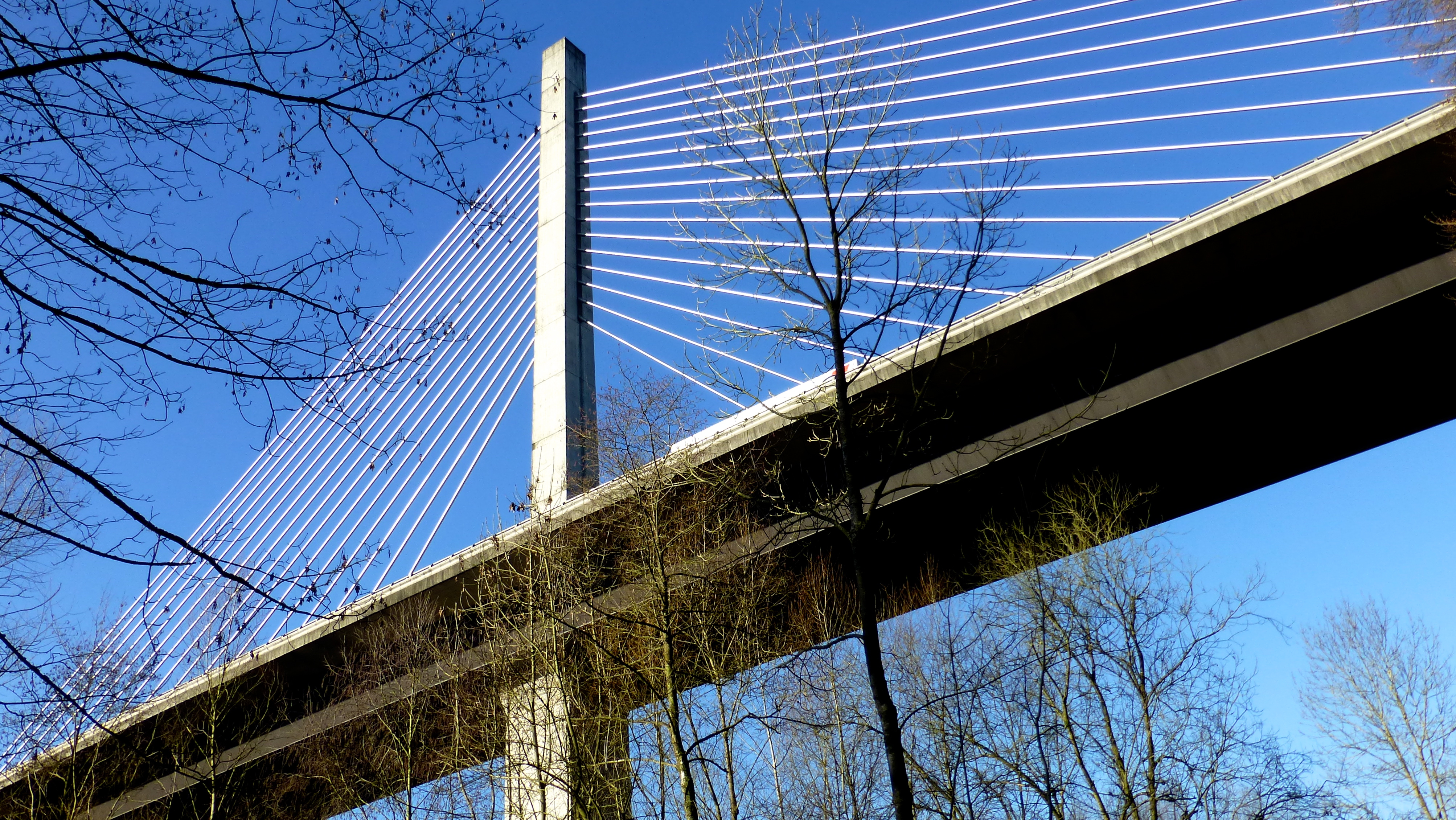 VICTOR BODSON BRIDGE on a sunny December morning